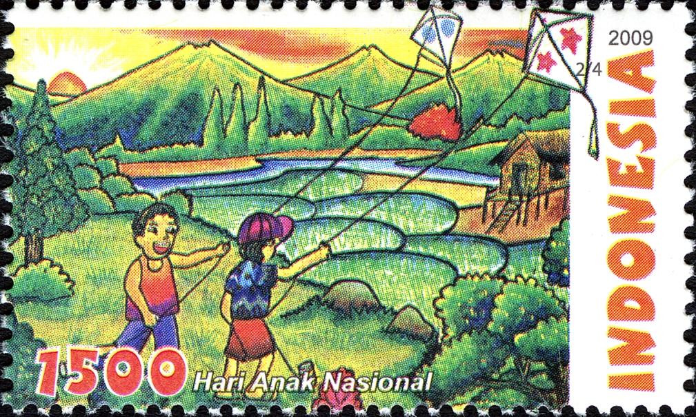 Stamps of Indonesia